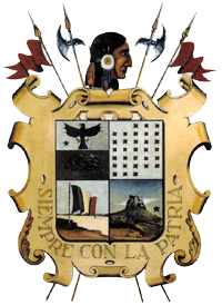 Nuevo Laredo Coat of Arms clearer and with white background removed